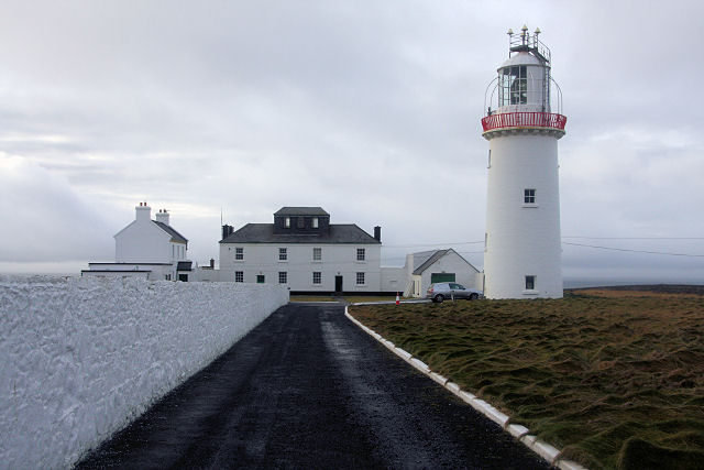 Loop Head lighthouse There has been a lighthouse at this important navigational location since 1670. The light was manually operated until 1971, when electricity was introduced to the station. Loop Head was fully automated twenty years later. It is now possible to stay at the lightkeeper's cottage, as it has been taken over by the Irish Landmark Trust.